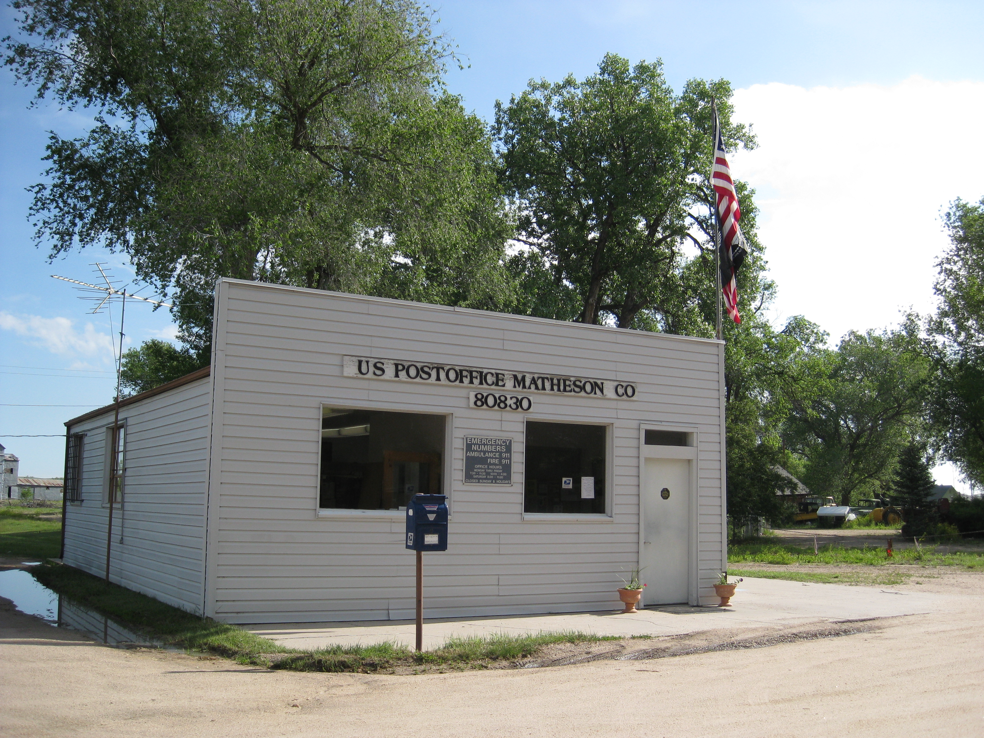 The Post Office in Matheson, Colorado.